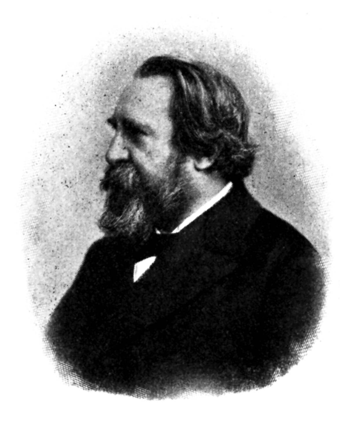 Theodor Meynert